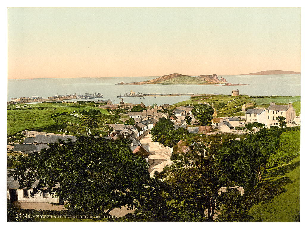 Fin de siècle postcard of Howth and Ireland's Eye in County Dublin, Ireland.